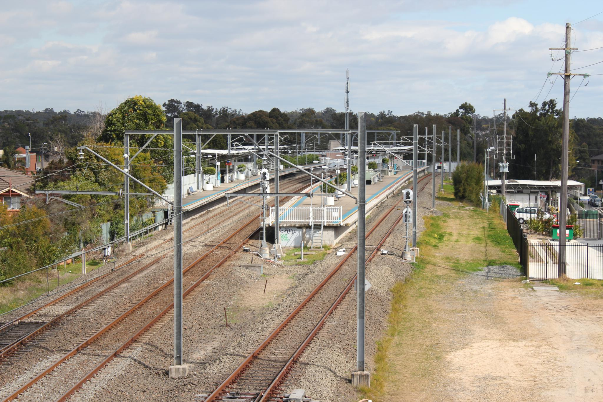 as seen from footbrige